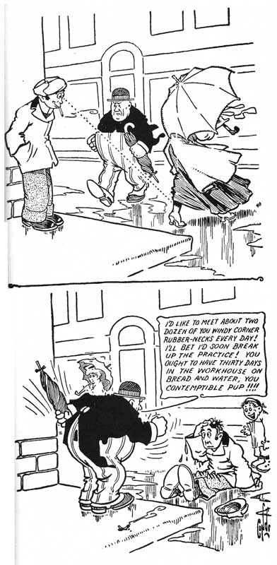 Cartoon from "The Outbursts of Everett True" comic-strip, wherein the irascible Everett True unloads his wrath on a male loiterer (or "windy corner rubber-neck") who ogles a lady's ankles as she crosses a street.